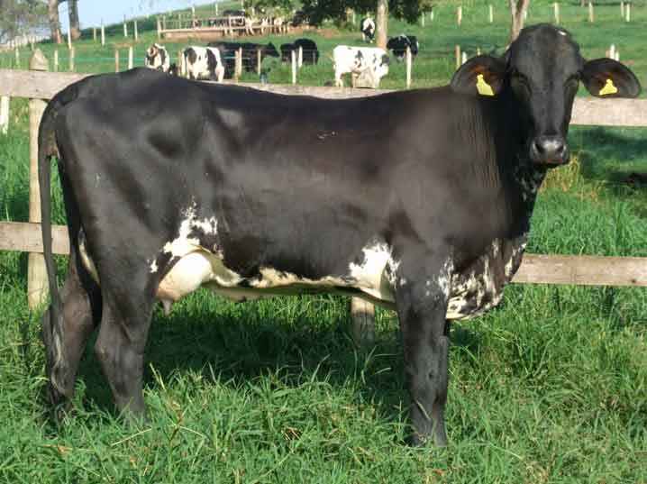 Cow Girolando half blood